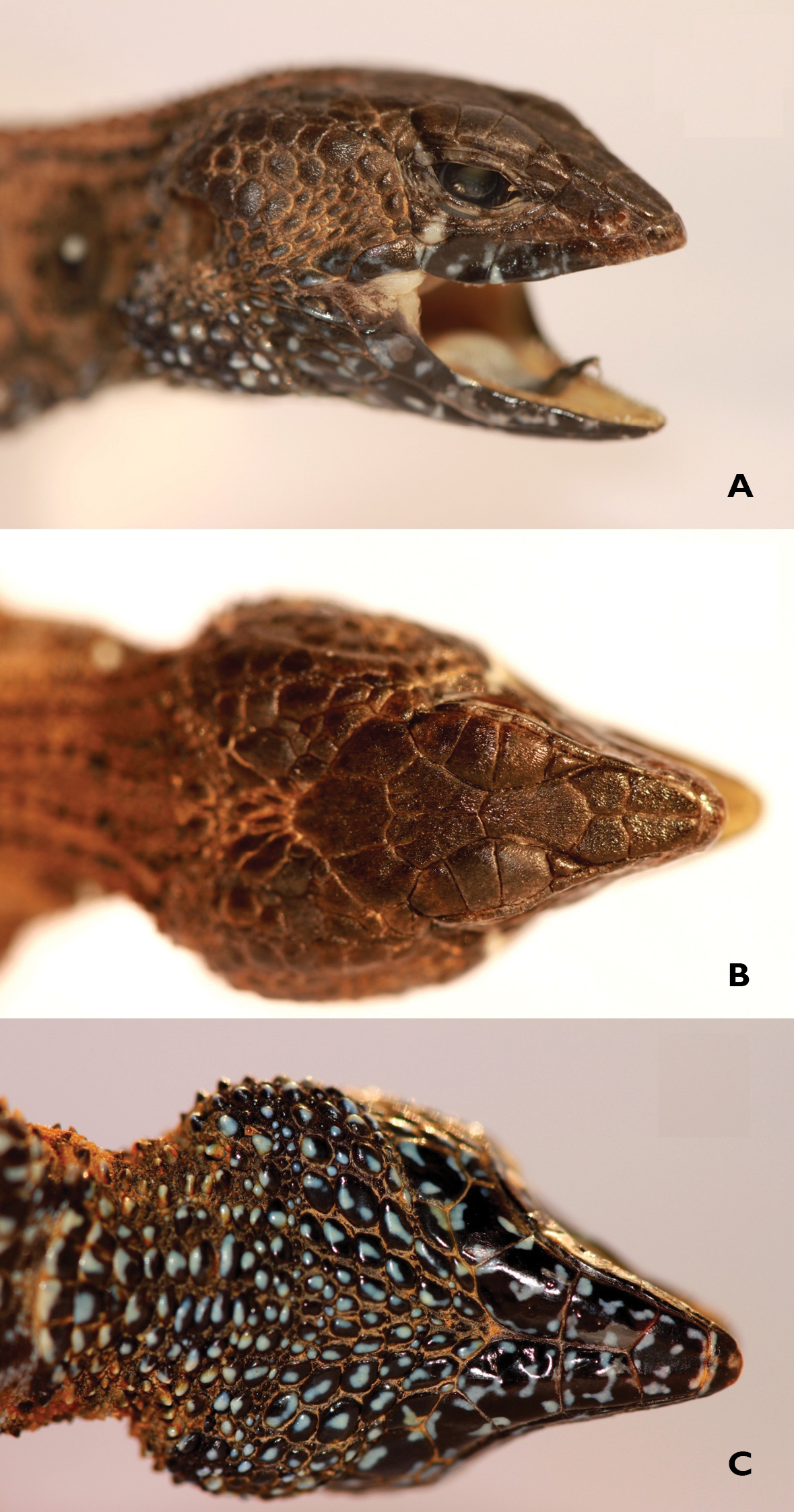 A Lateral, B dorsal and C ventral views of the head of the Potamites montanicola holotype (CORBIDI 08322).